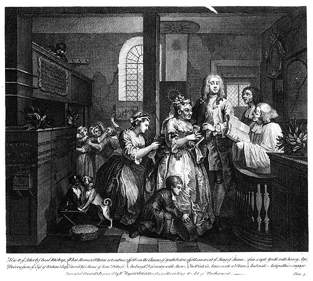 William Hogarth: A Rake's Progress, Plate 5: Married To An Old Maid, Engraving, 35.5 x 41cm